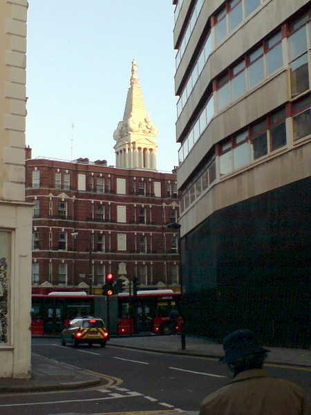 Museum Street & New Oxford Street, Bloomsbury Looking north along Museum Street, towards New Oxford Street. The steeple of St George's Bloomsbury can be seen in more detail here - 602906